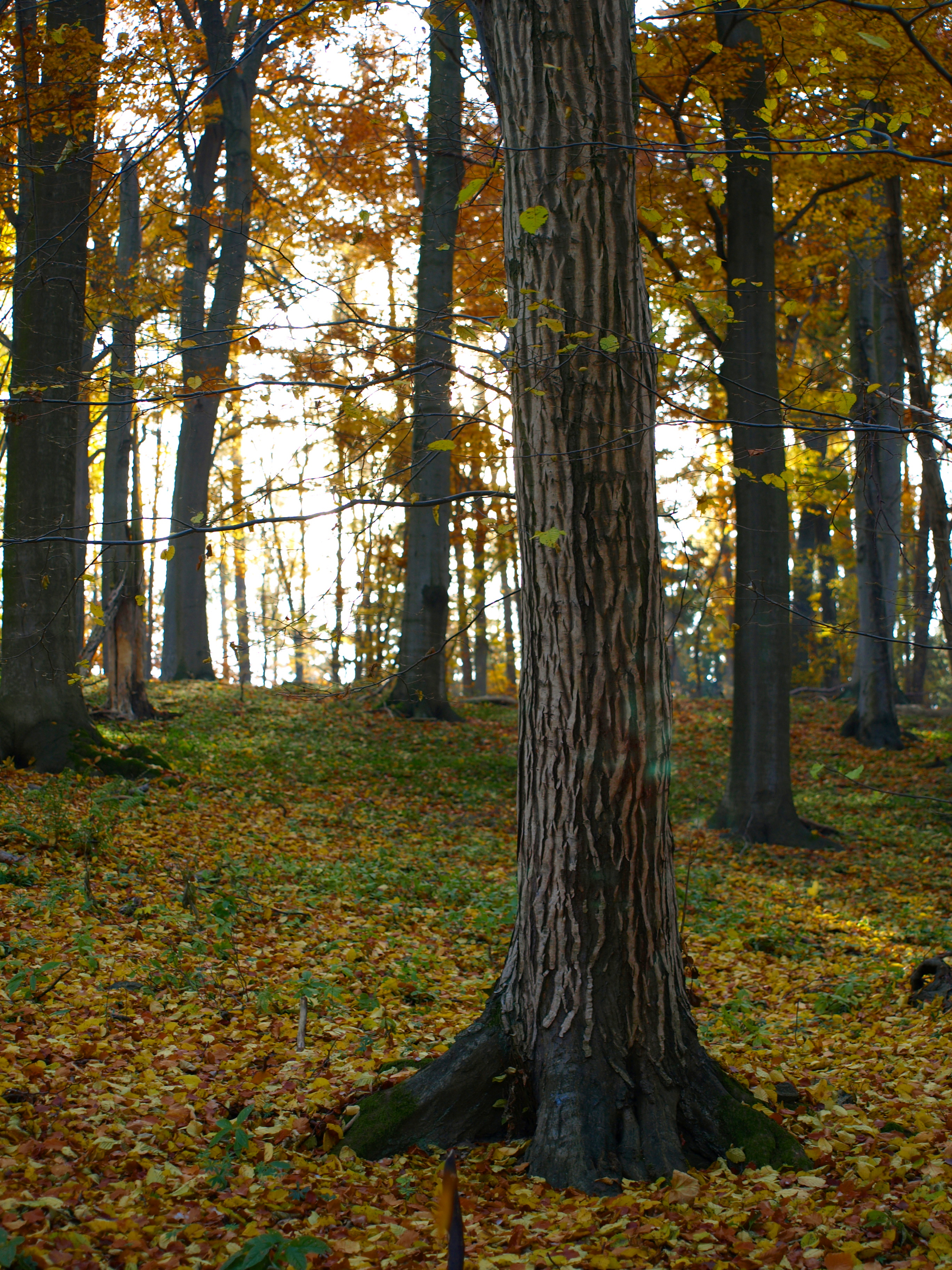 National nature reserve Ve Studeném in Benešov District, Czech Republic